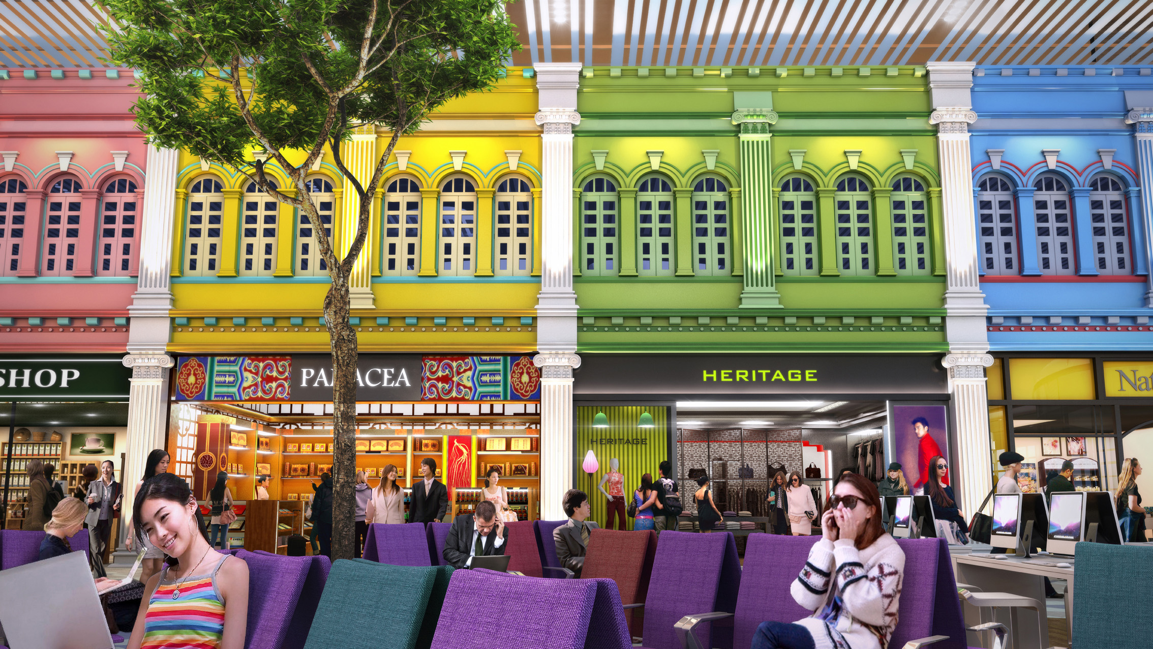 Artist's impression of Peranakan houses shops in Terminal 4 at Singapore Changi Airport